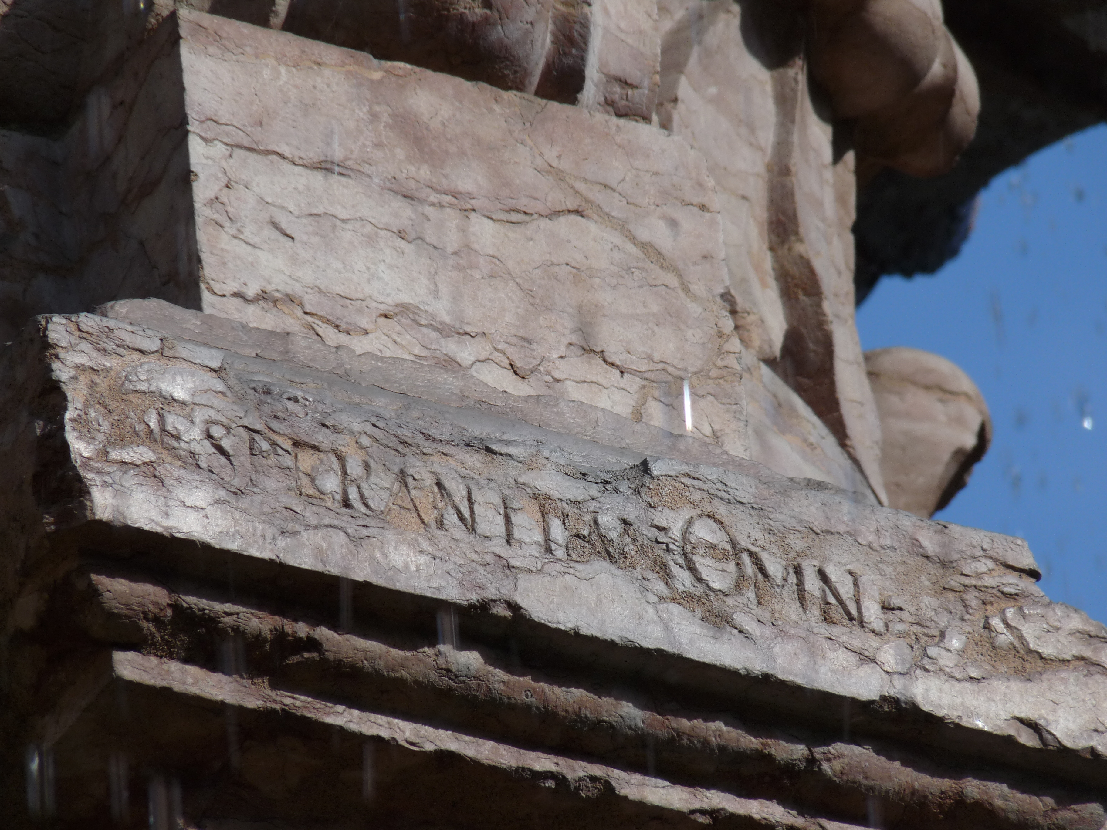 Trento (Italy): inscription "desperantibus omnibus" (part of a longer inscription) on the trunk of the fountain of Neptune (probably related to the difficulties found in building an aqueduct bringing water to the fountain).